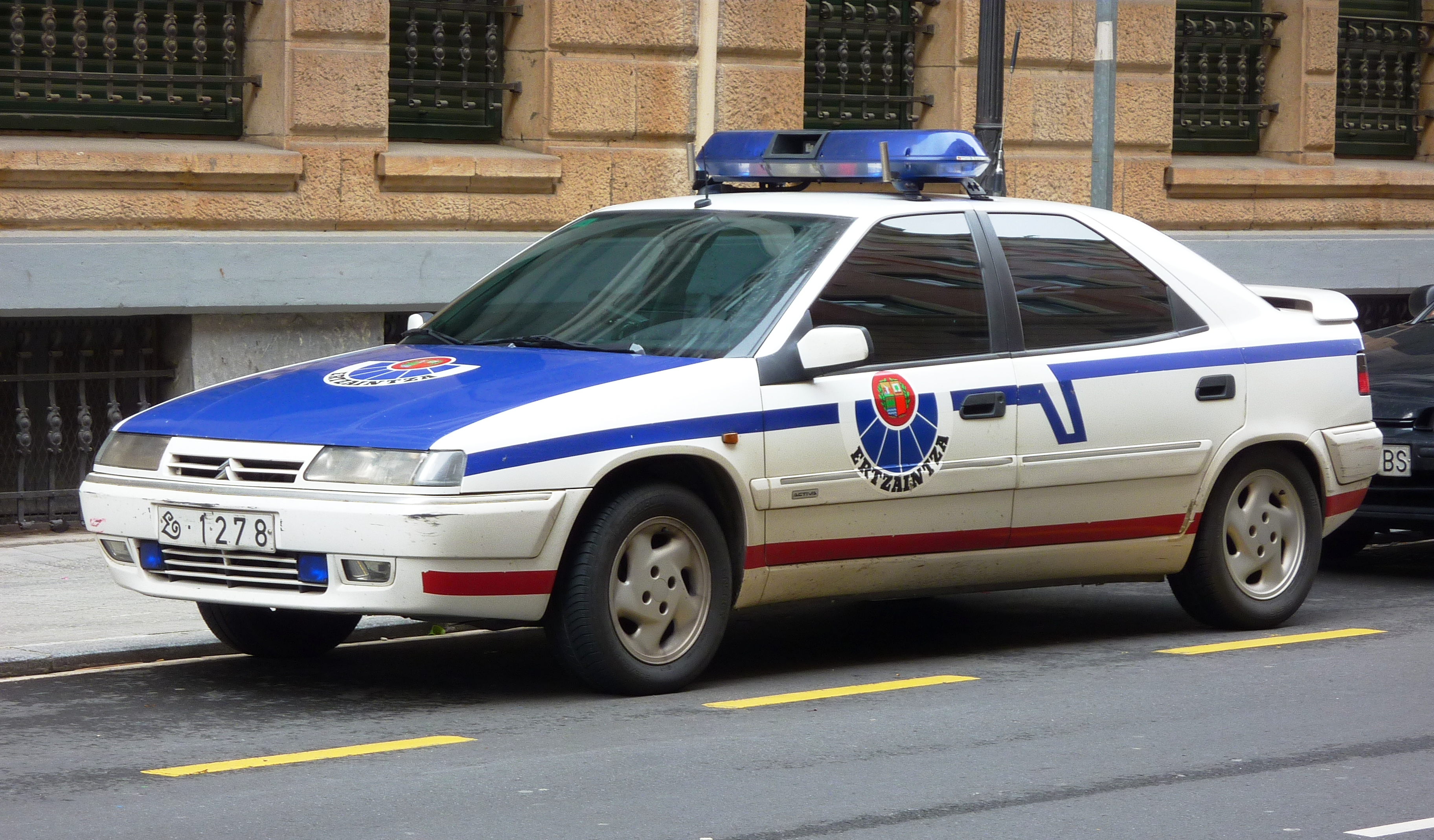 Ertzaintza (Spanish Basque Country Regional Police) Citroën Xantia at Bilbao.